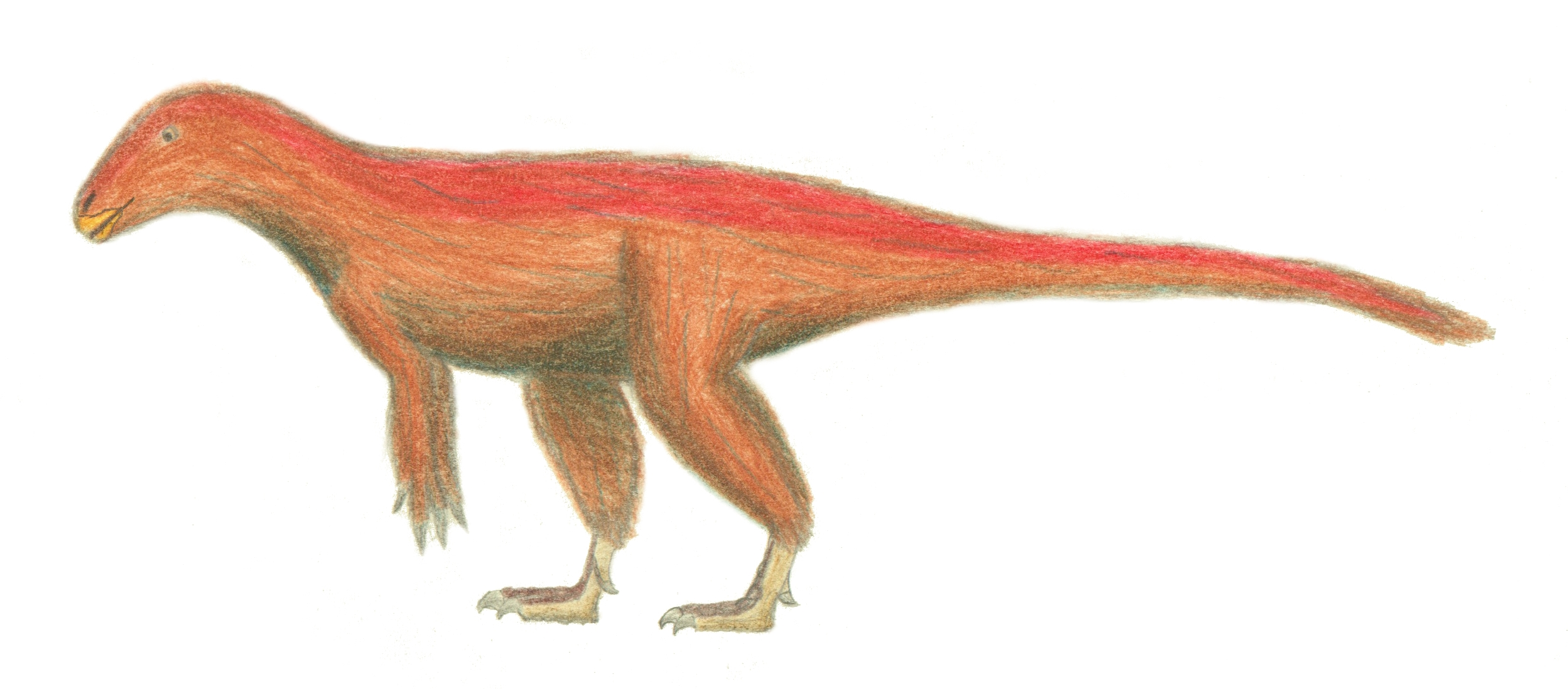 Life restoration of Aviatyrannis.